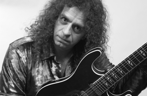 Singer, Songwriter, Guitarist with Iron Butterfly